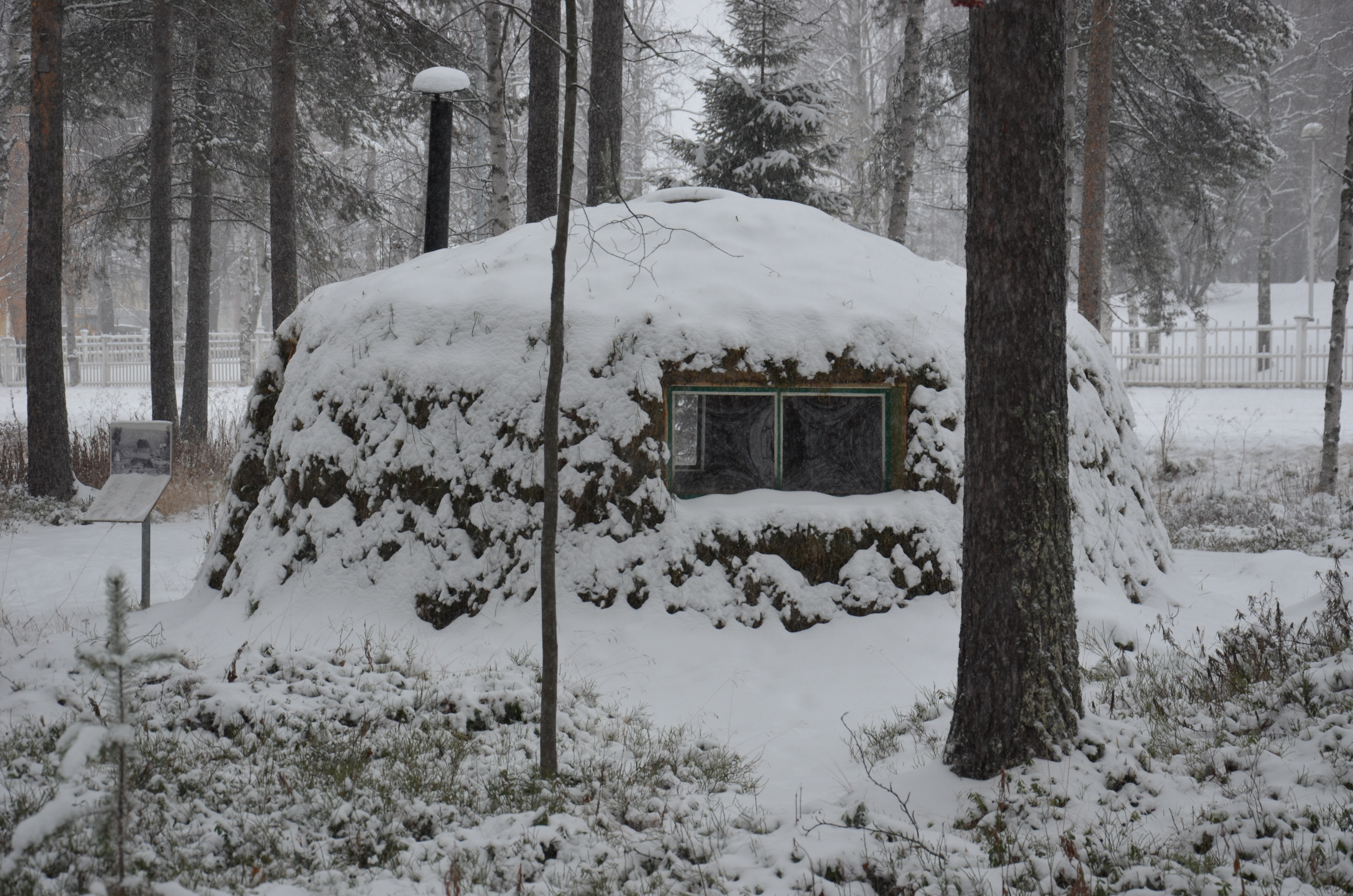 Torvkåta från Jokkmokk 1972